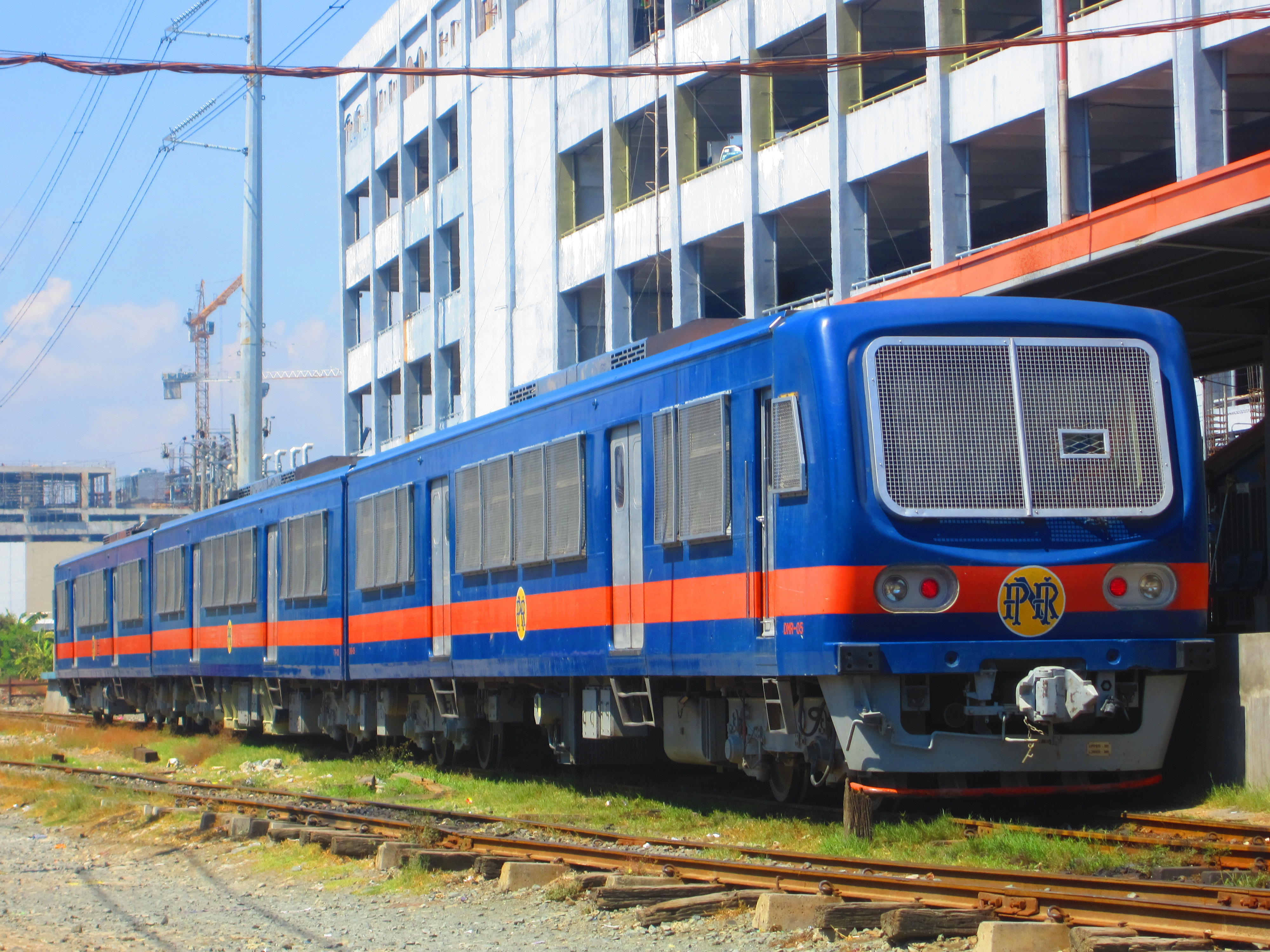 Repainted PNR's latest DMU taken in Alabang Station.